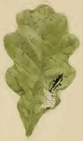 Stainton’s Natural History of the Tineina (1855–1873): Coleophora currucipennella oak leaf eaten by the larva